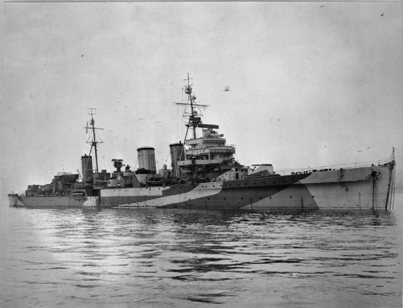 Photograph of British cruiser HMS Enterprise.